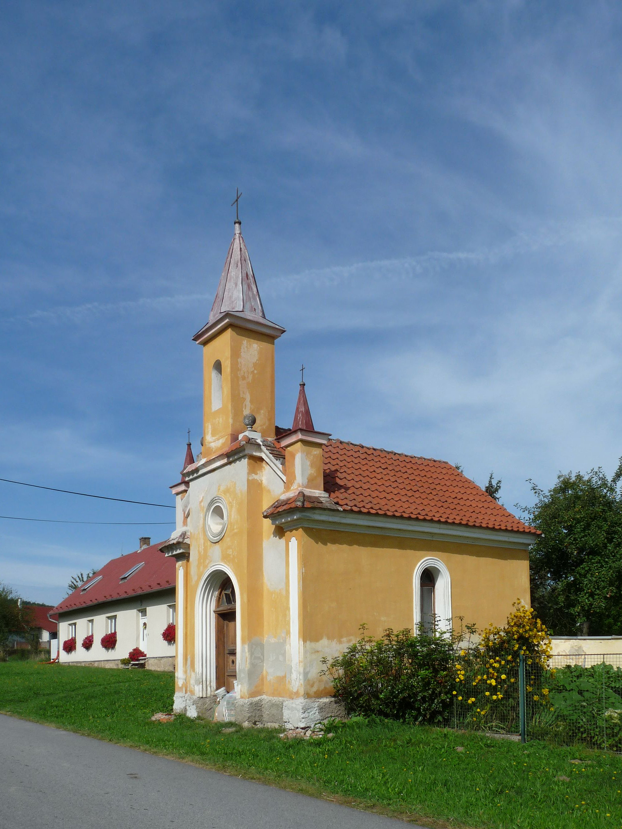 Chapel in the village of Dvorec, Prachatice District, Czech Republic, part of the market town of Dub. Česky: Kaple ve vsi Dvorec, části obce Dub v okresu Prachatice.